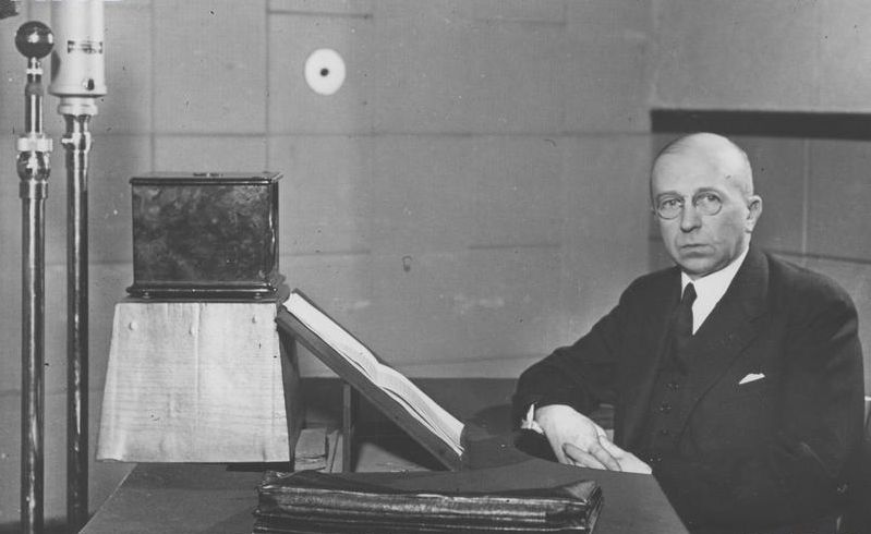 Colonel Adam Koc